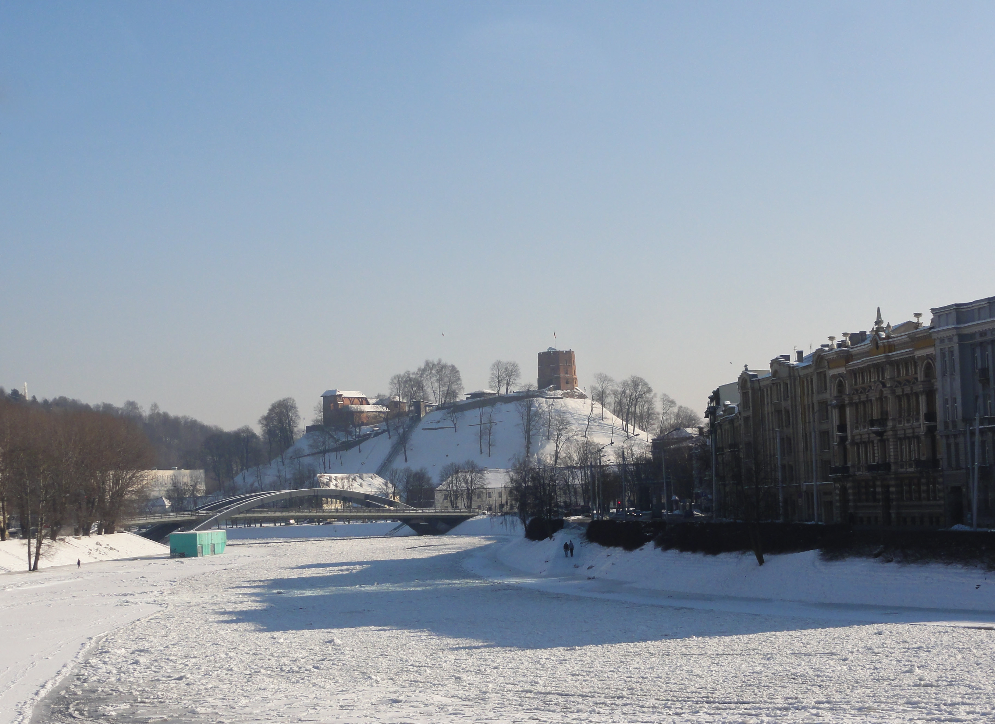 Neris with Mindaugas bridge and Gedimino tower, Vilnius, Lithuania